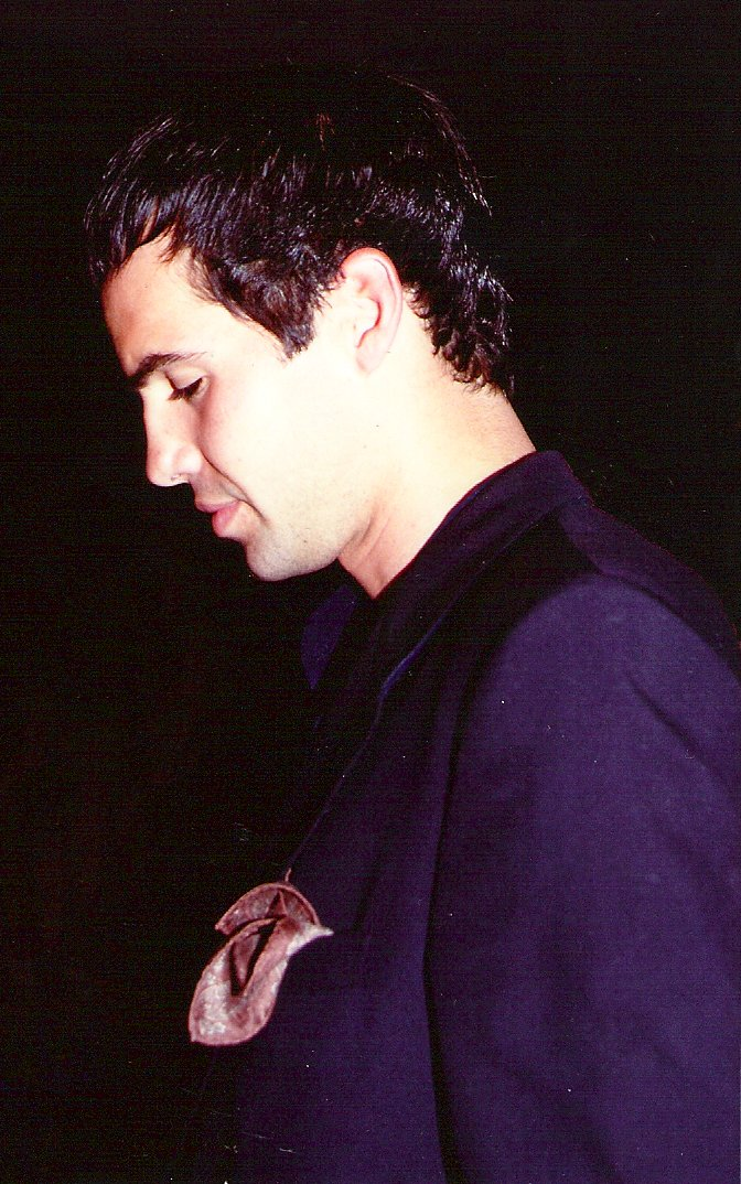 Billy Zane